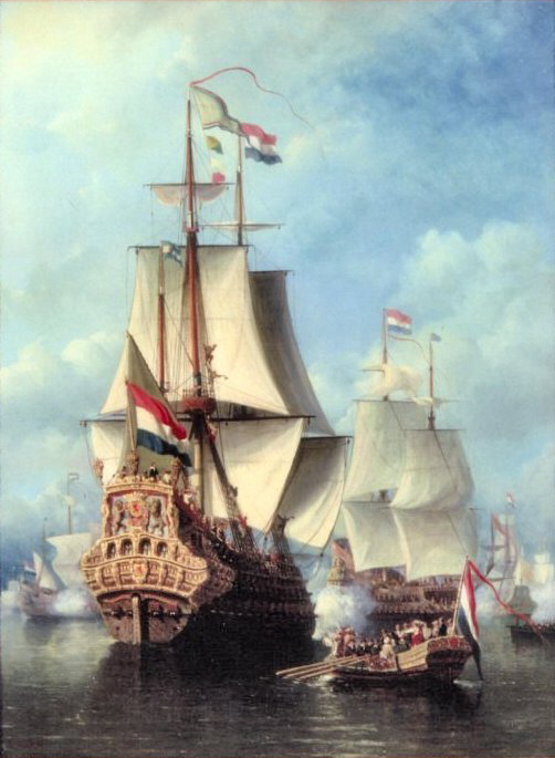 Admiral de Ruyter, Cornelis de Witt and other Admirals go on board of the Dutch Flagship Zeven Provincien in June 1667.